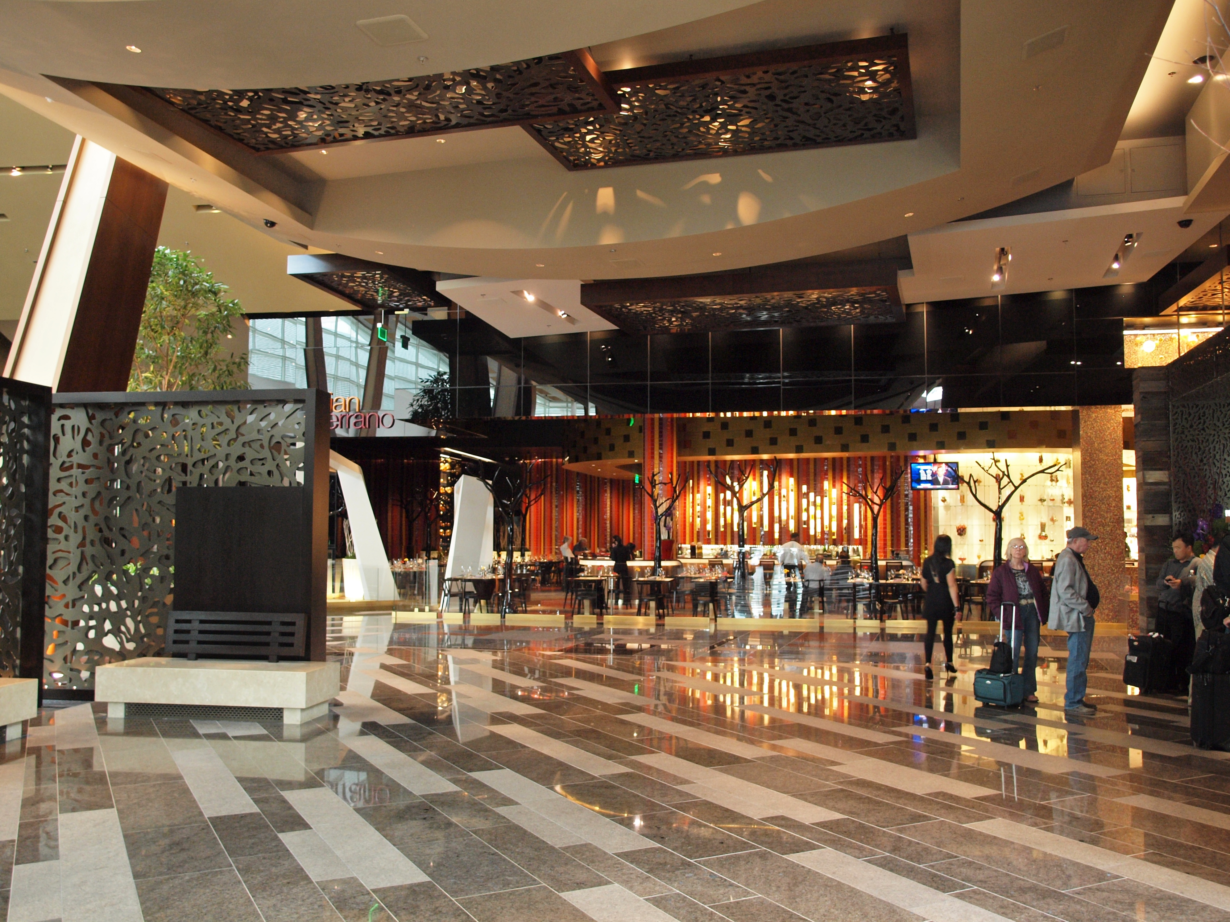 Lobby in the Aria hotel, Las Vegas, Nevada